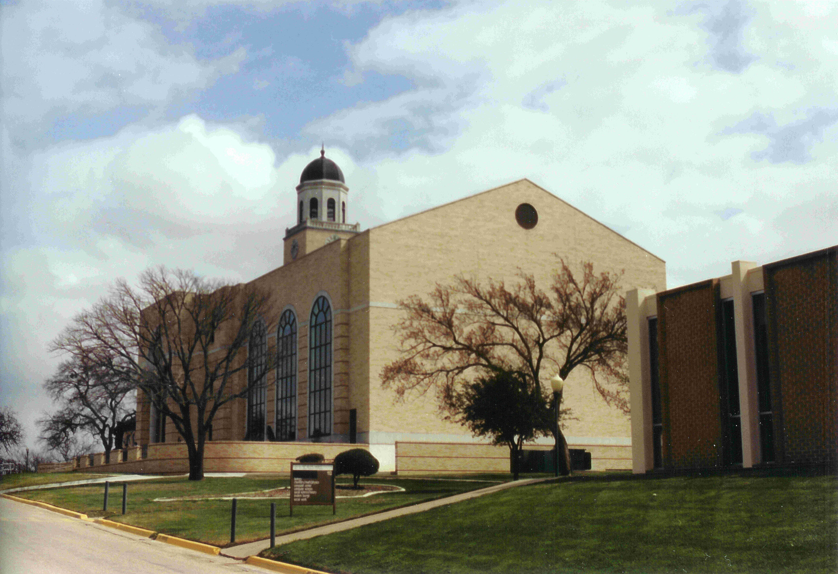 Chan Shun Centennial Library of Southwestern Adventist University, Keene, Texas, USA. Taken with an SLR.